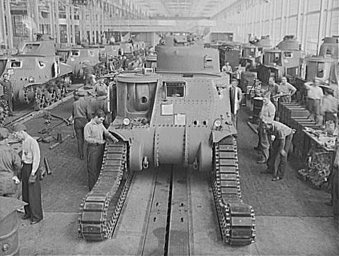 Workers in the huge tank Chrysler arsenal near Detroit, putting the tracks on one of the giant M-3 tanks. These rolling arsenals weigh twenty-eight tons, are capable of speeds over twenty-five miles an hour and are equipped with 75 mm. field artillery gun and a 37 mm. anti-aircraft gun, as well as four mounted machine guns and various unmounted arms its crew may carry. The tanks are powered by 400 horsepower Wright Whirlwind aviation engines.